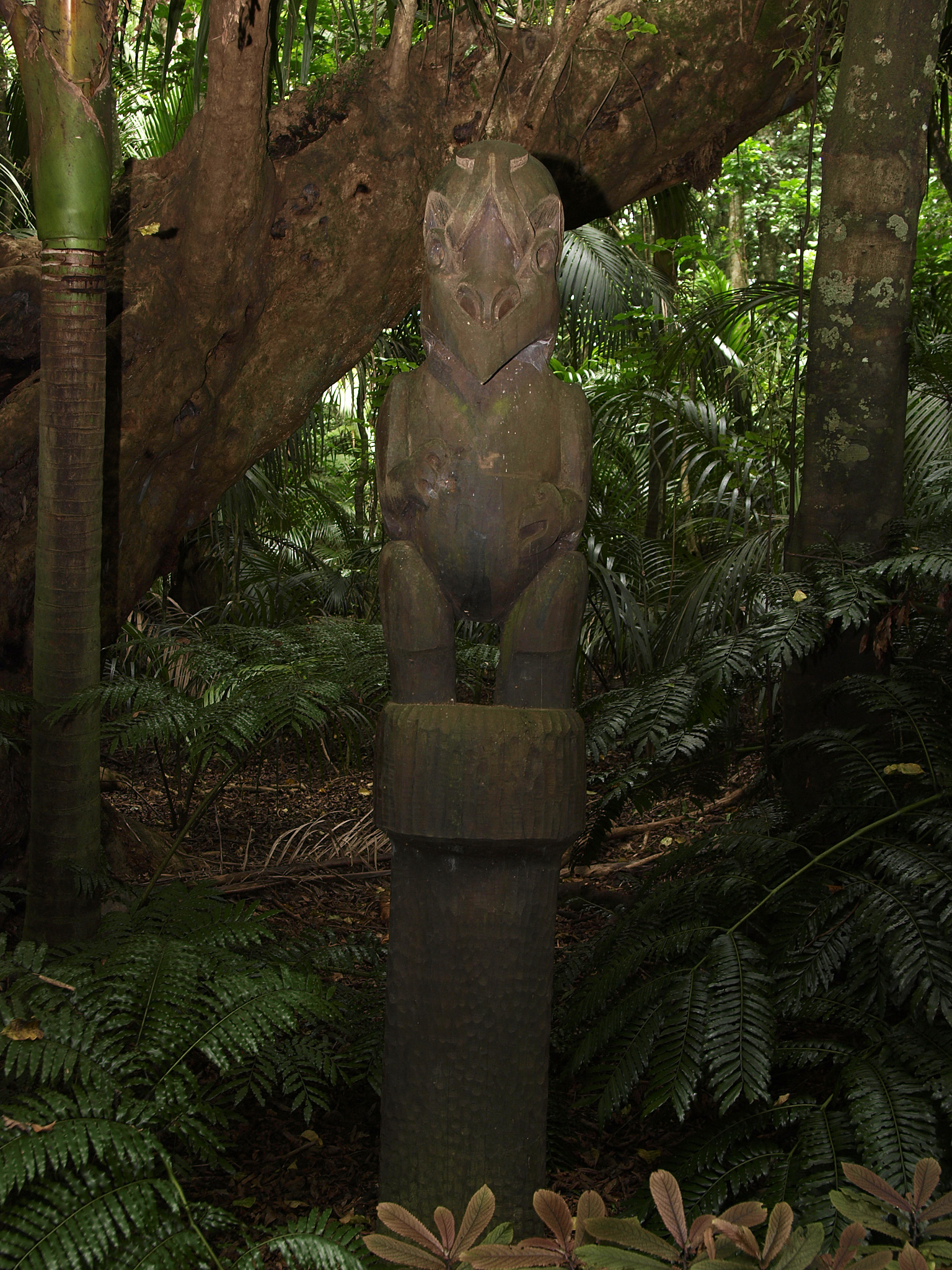 Carving at Burial Tree, Opotiki, Bay of Plenty, New Zealand.